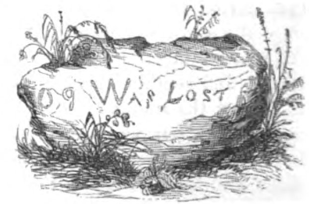 Donop's Grave